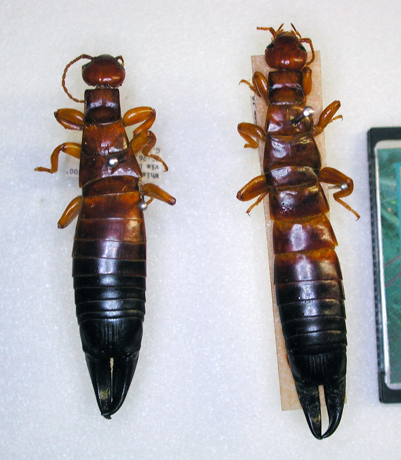 Titanolabis colossea (Dermaptera), University Collection, Brisbane, Australia